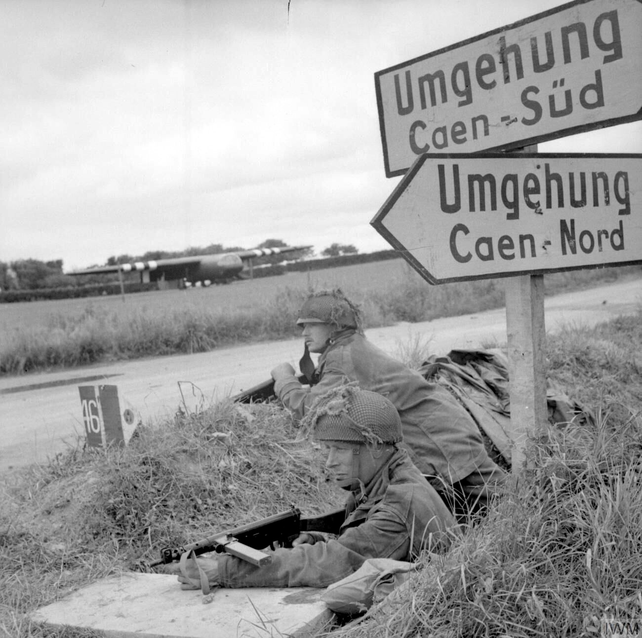 IWM caption : THE BRITISH ARMY IN THE NORMANDY CAMPAIGN 1944. Lance Corporals A.Burton and L.Barnett of 6th Airborne Division guarding a road junction near Ranville, 7 June 1944. Each is armed with a Mk V Sten submachine gun. Horsa gliders can be seen in the background.